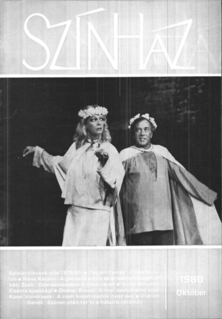 Cover page of the Hungarian theatrical review "Szinhaz", October 1980